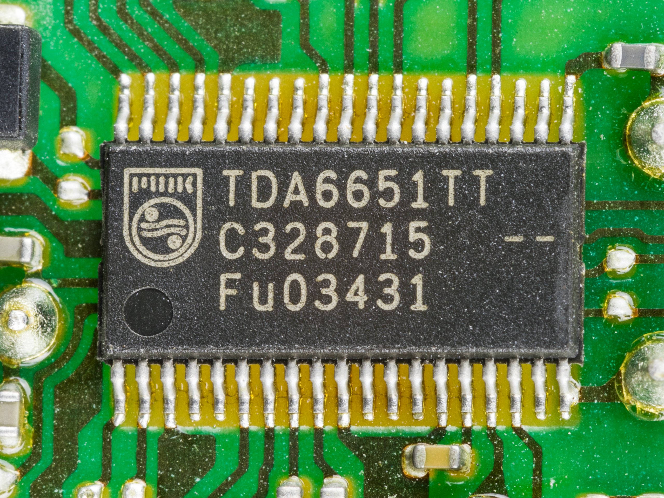 Skymaster DT 500 - Sharp GCI 3AV0 - Philips TDA6651TT - 5 V mixer/oscillator and low noise PLL synthesizer for hybrid terrestrial tuner (digital and analog). Package: TSSOP38